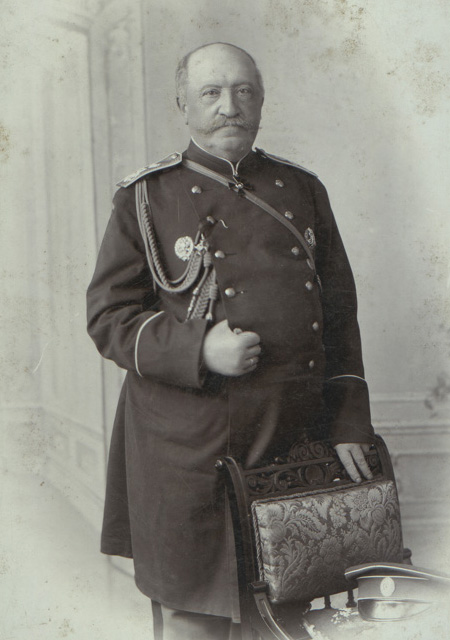 Count Nikolai Ignatiev